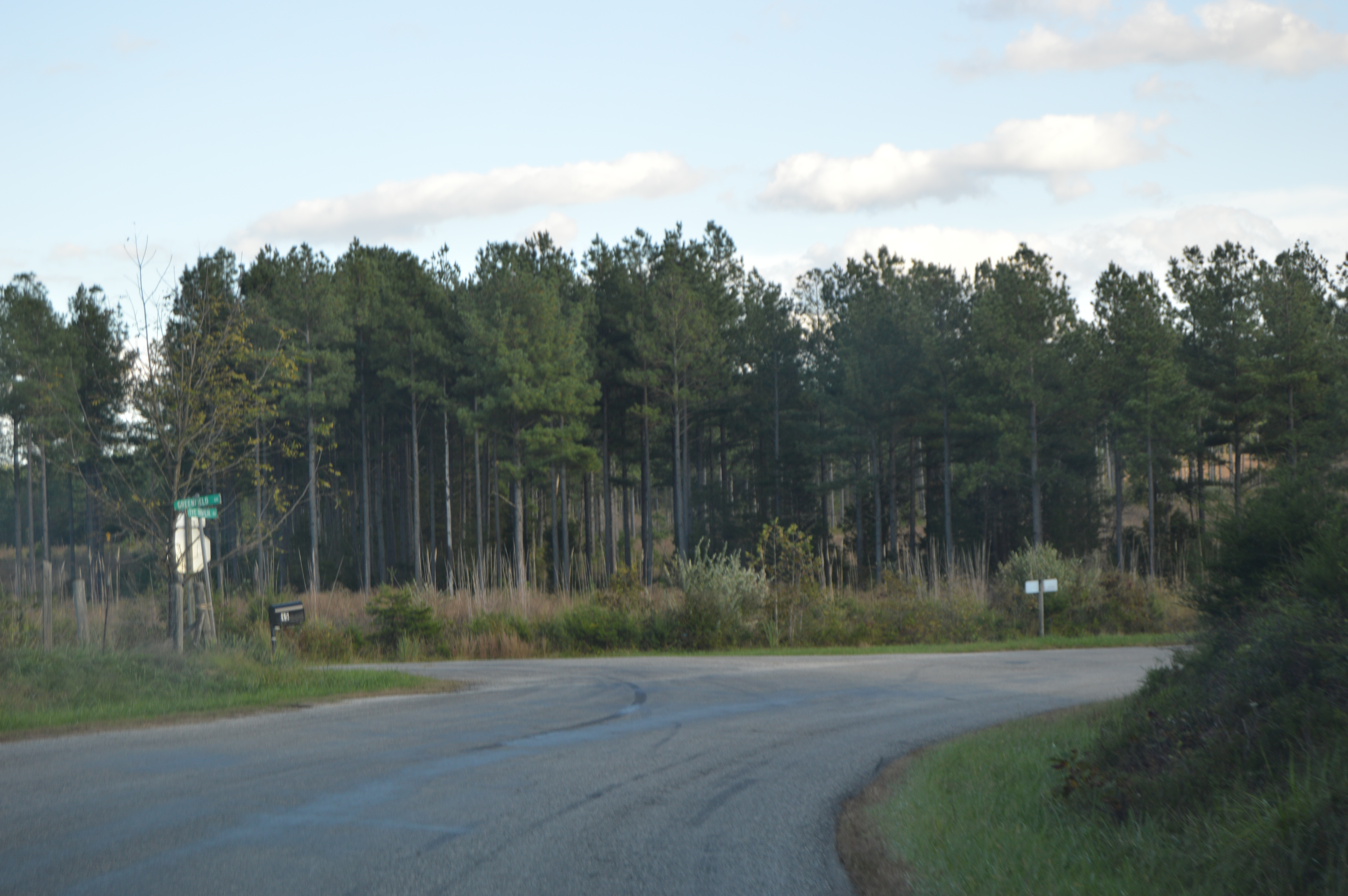 Open countryside at the spot once known as Piedmont, located at the intersection of Tye River Road and Greenfield Drive in Nelson County, Virginia, United States.